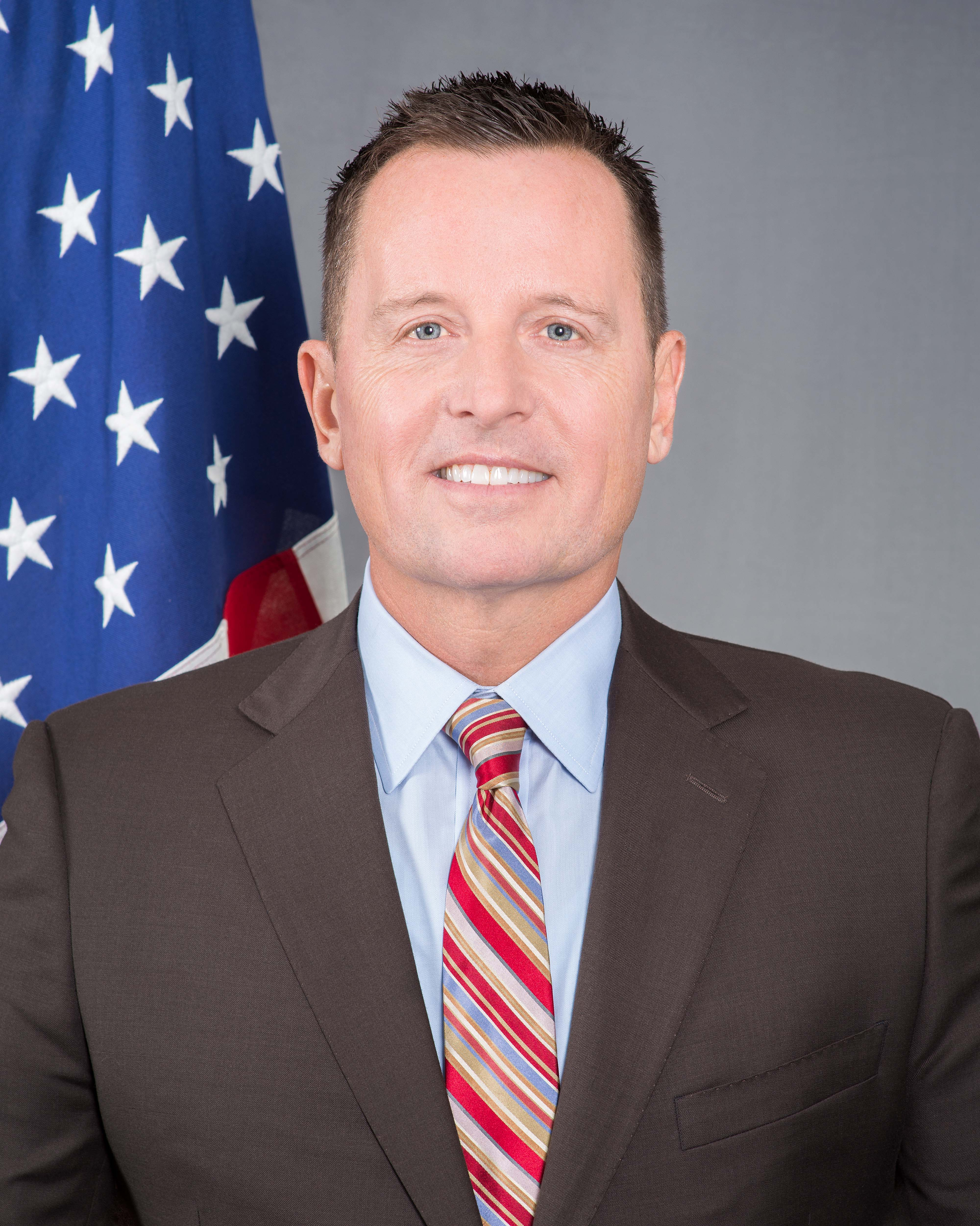 US Ambassador to Germany Richard Grenell